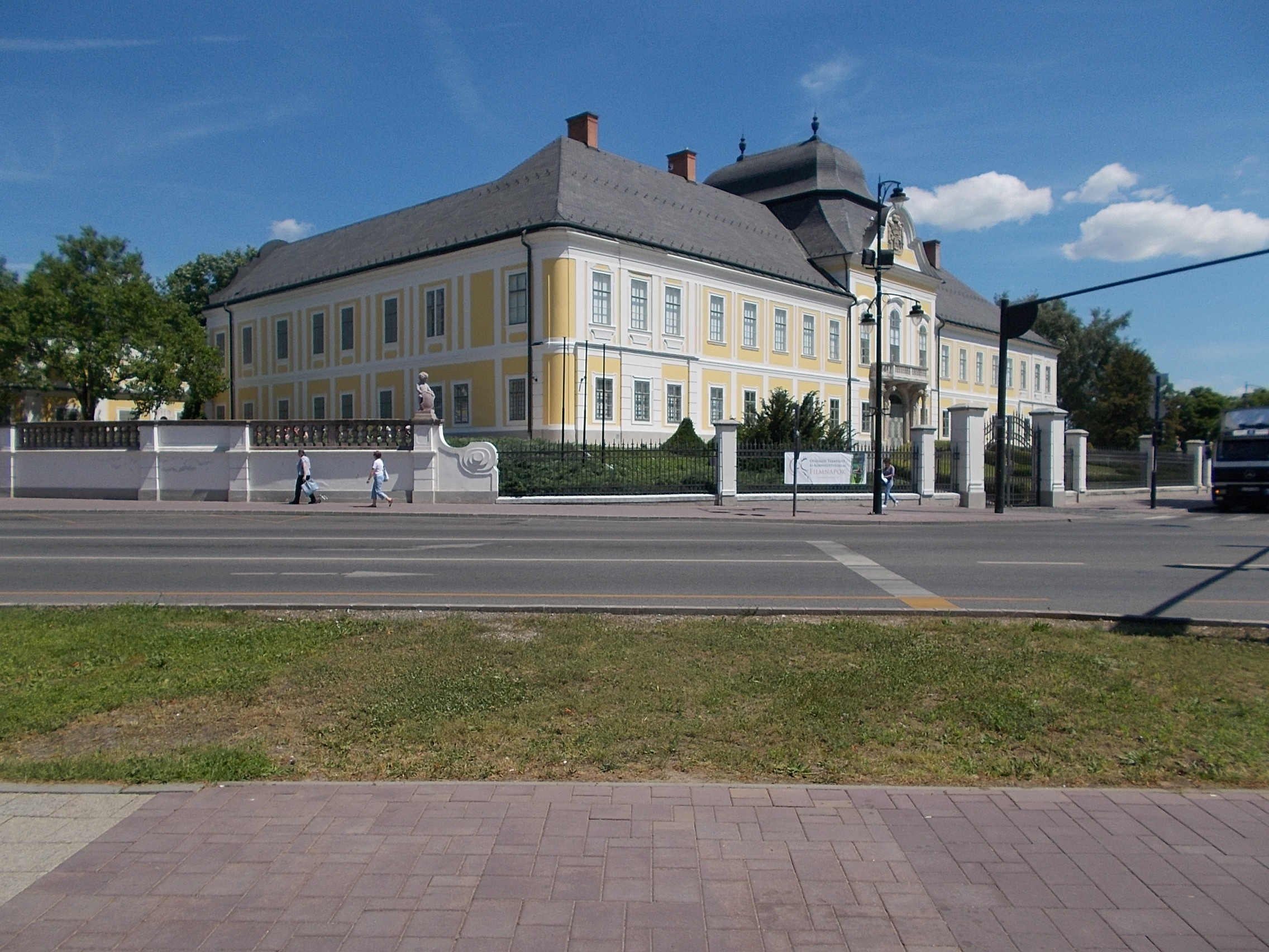 Grassalkovich Mansion, now Hunting Museum. - 24 Kossuth Square, Hatvan, Heves County, Hungary.